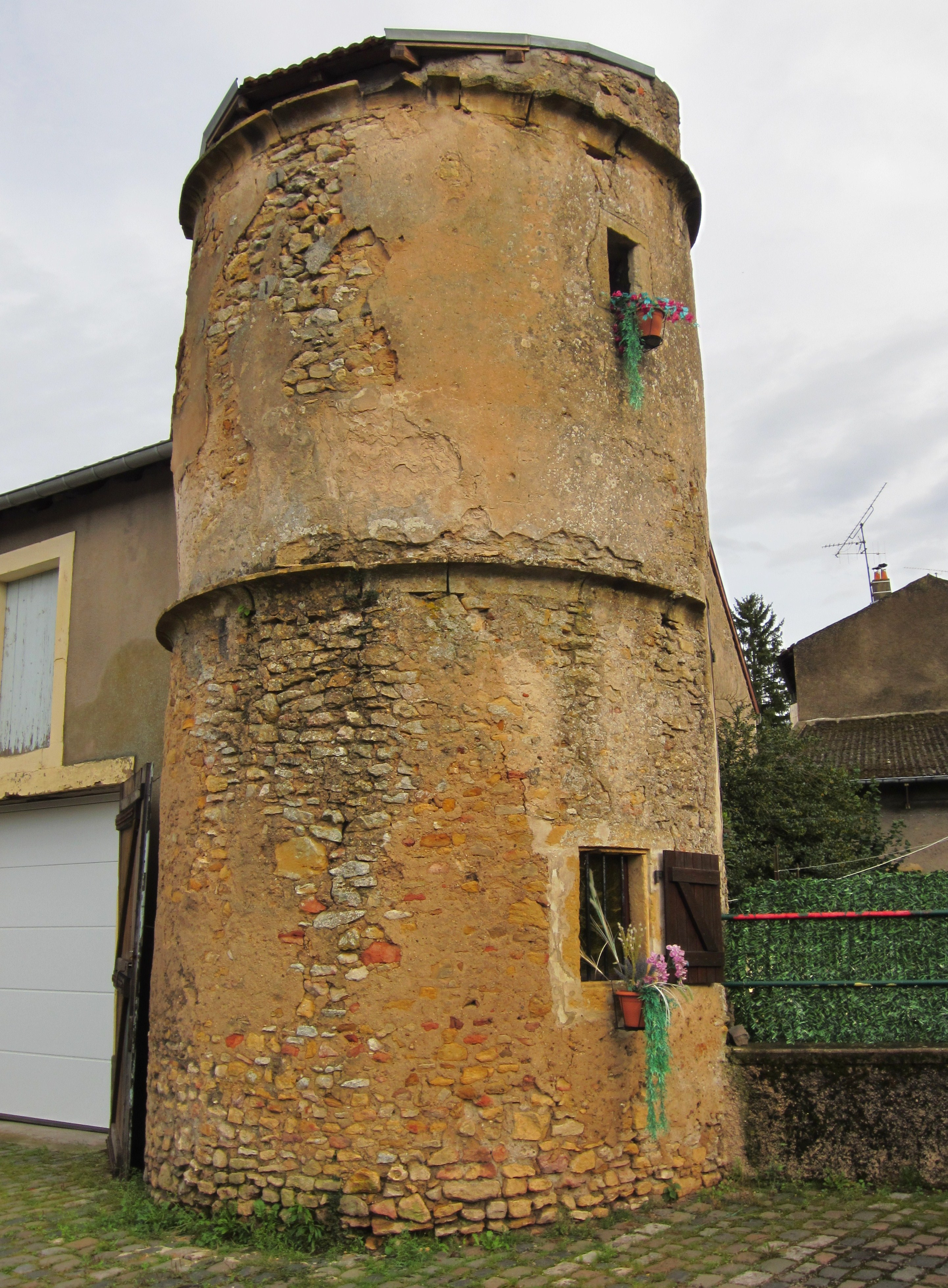 Description fortifications Ancy Moselle Date12 September 2011Sourcemon appareil photoAuthorAimelaimePermission(Reusing this file) fortifications Ancy Moselle